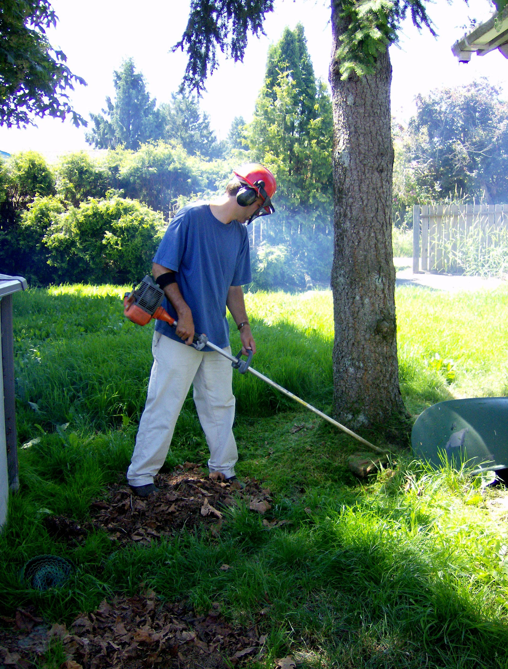 A man clearing long grass with a string trimmer ("weed eater")